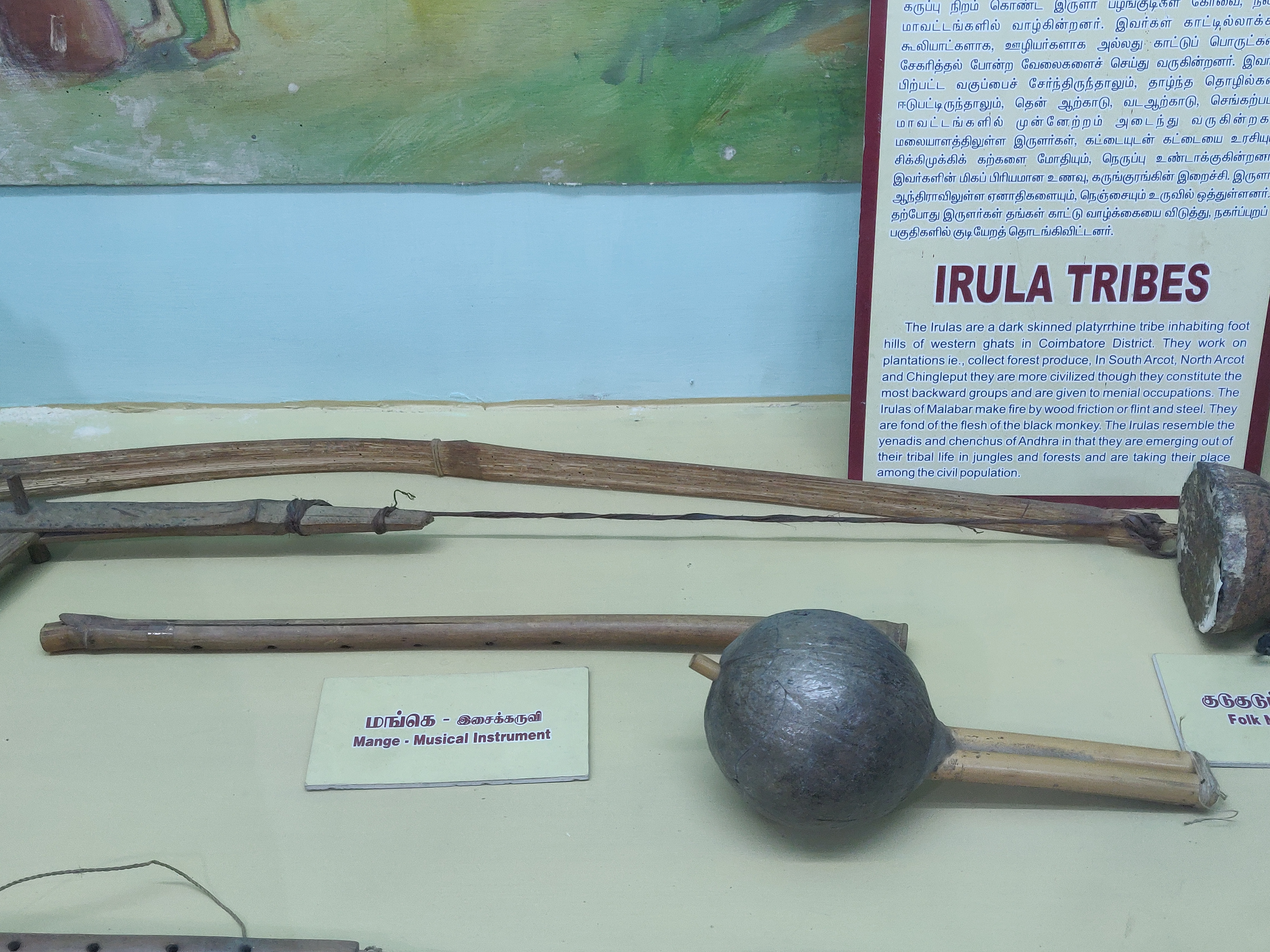 Exhibits in Government Museum, Coimbatore. Mange - Musical instrument